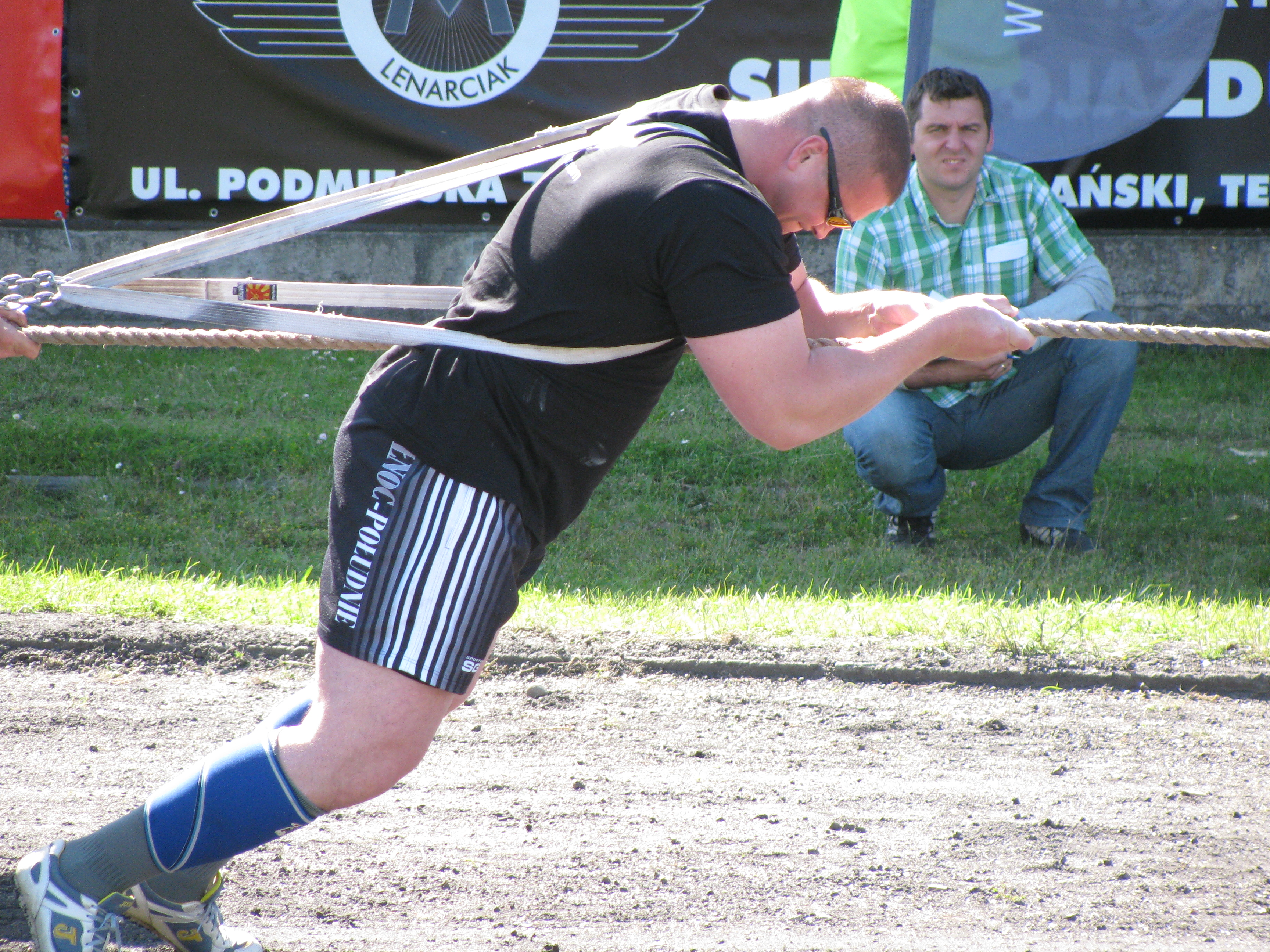 Strongman exercise: Truck Pull